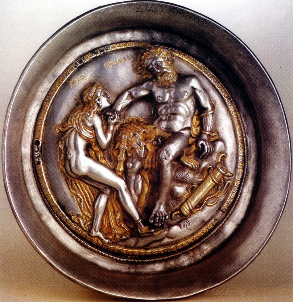 A photo from the exhibition of the Rogozen Thracian treasure in the Vraca History museum